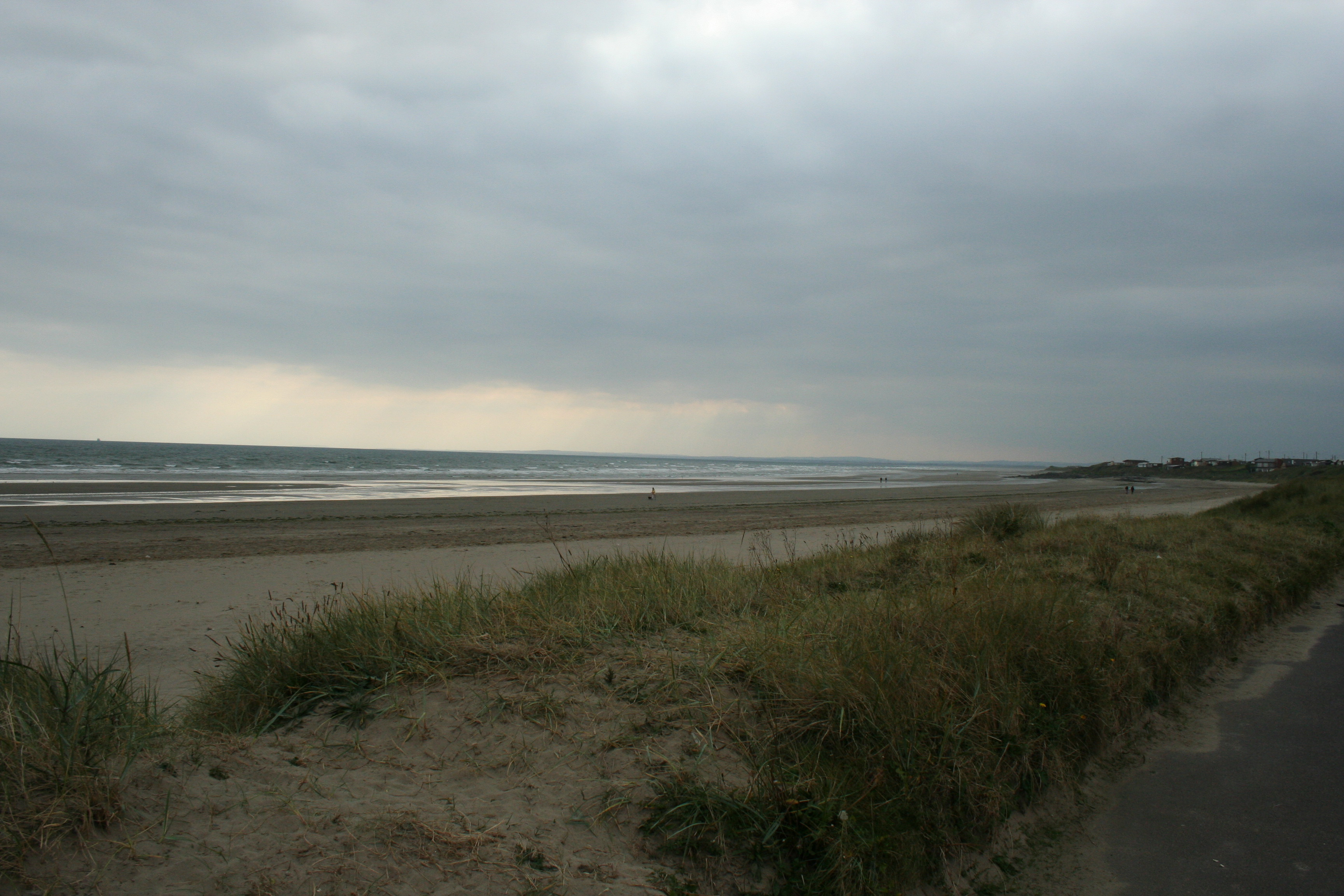 Clogherhead Beach in Autumn Credit: A Peter Clarke image